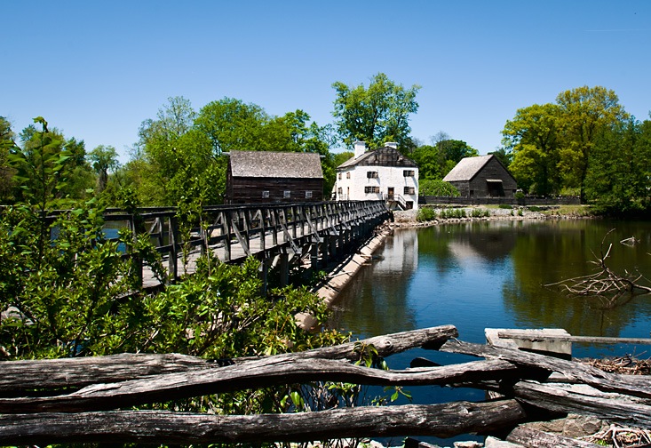 The Pocantico River at Philipsburg Manor.